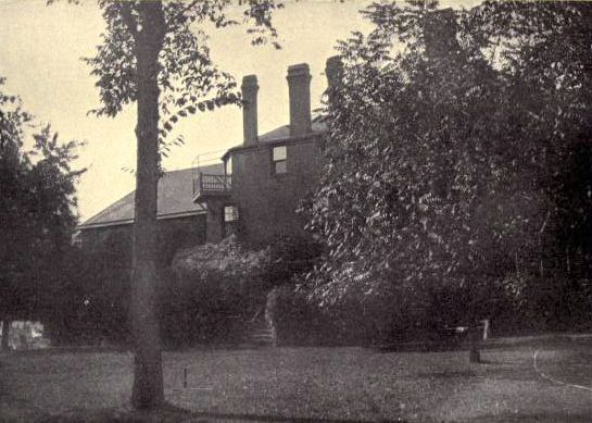 Home of Henry Demerest Lloyd, muckracking journalist, from Chicago. Lived in Winnetka, where his house "The Wayside" is a National Historic Landmark. The photo is from a biography written by his daughter in 1912 "Henry Demerest Lloyd, A Biography, 1847-1903 by Caro Lloyd, Putnam, New York and London, 1912" available at above website. Out of copyright